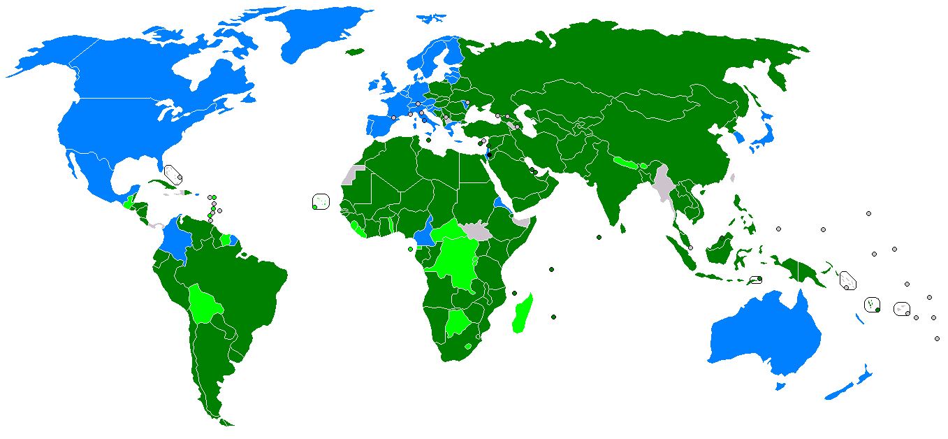 Palestine: dark green – diplomatic relations light green – diplomatic recognition blue – other official relations Based on sources compiled at Foreign relations of Palestine.